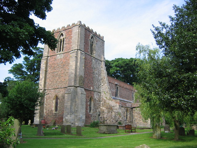 Church of St Lawrence Church, Sigglesthorne, East Riding of Yorkshire, England.The church is situated at the south end of the village of Sigglesthorne.